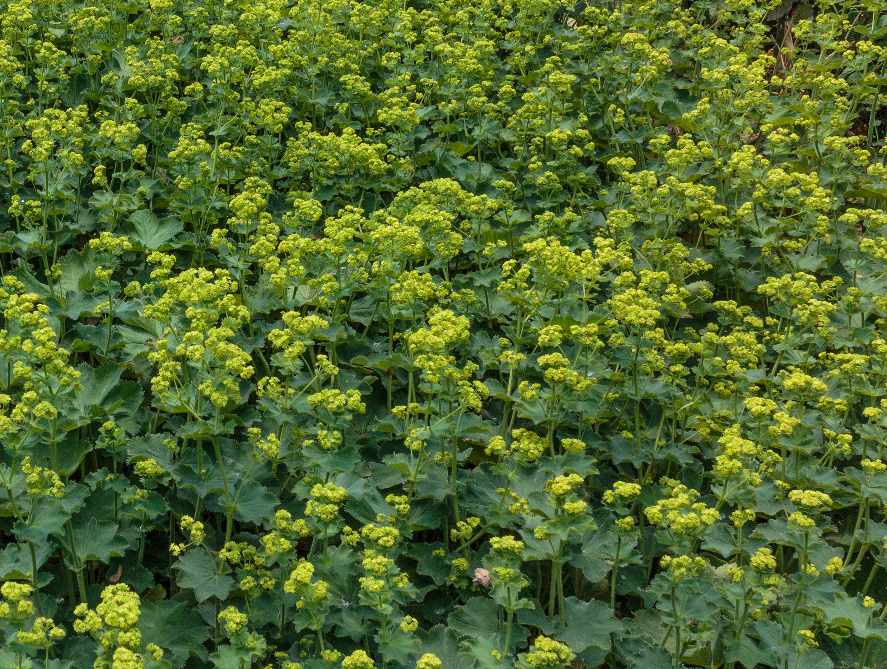 Vrouwenmantel Alchemilla mollis. Location, Mien Ruys Gardens.